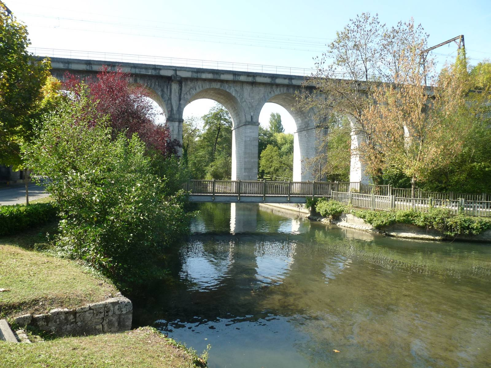 railway viaduct of Foulpougne, at Gond-Pontouvre, Charente, SW France